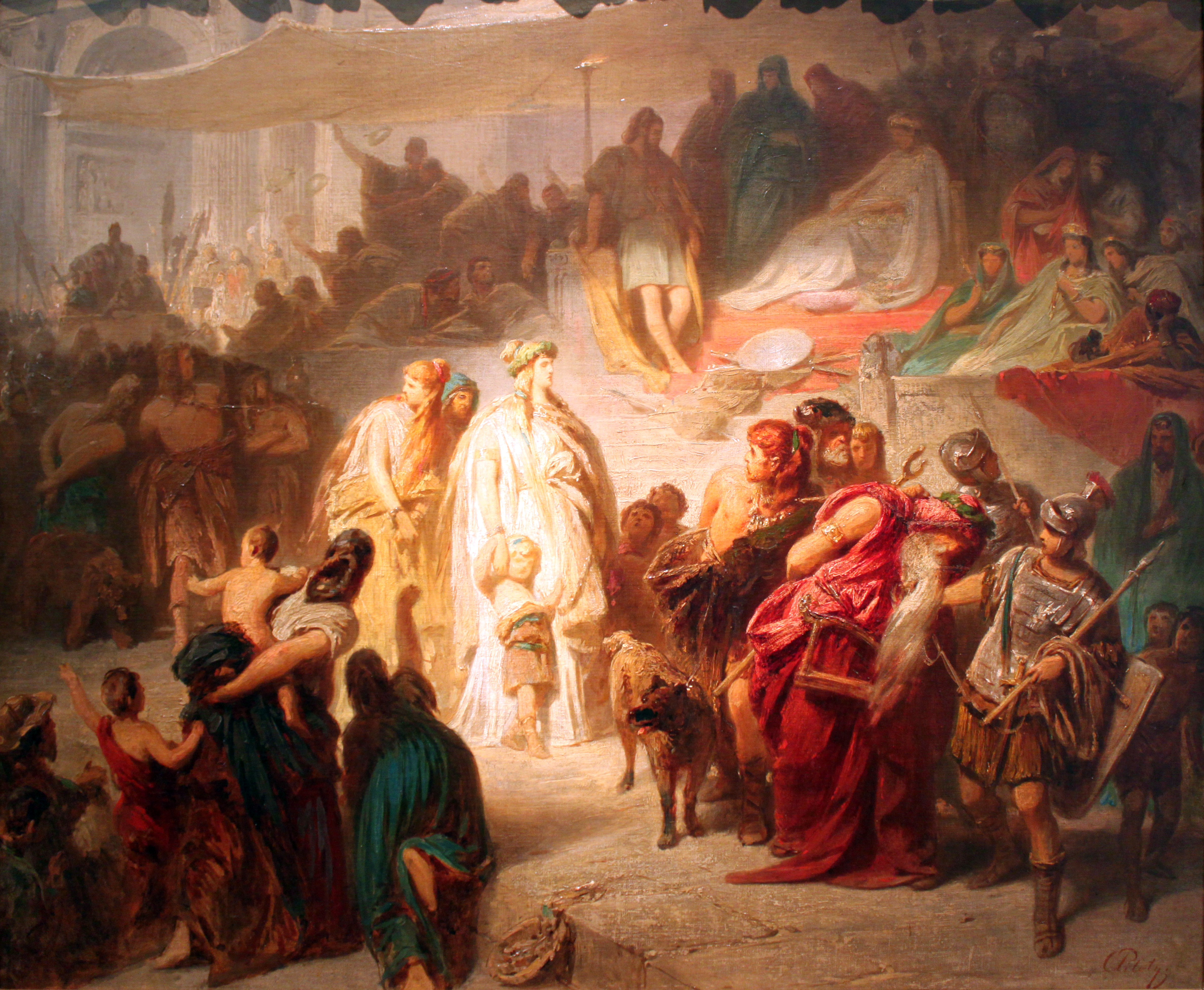 Thusnelda the triumph of Germanicus